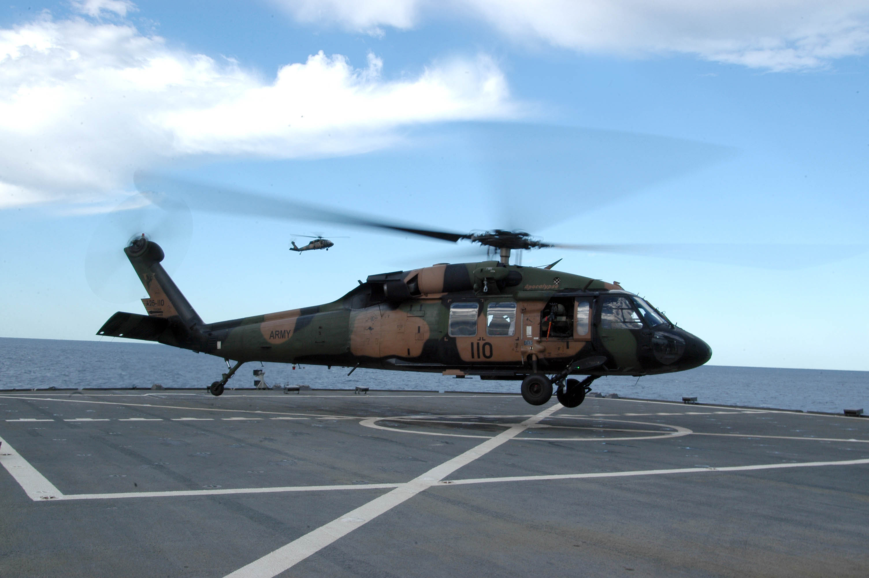 Coral Sea (June 23, 2005) - An Australian Army S70A-9 Black Hawk helicopter lands on the flight deck aboard USS Blue Ridge (LCC 19) to drop off several local officials, environmental experts, and defense attaches for a tour aboard the U.S. Seventh Fleet command ship as part of combined exercise Talisman Sabre. Talisman Sabre is an exercise jointly sponsored by the U.S. Pacific Command and Australian Defence Force Joint Operations Command, and designed to train the U.S. Seventh Fleet commander's staff and Australian Joint Operations staff as a designated Combined Task Force (CTF) headquarters. The exercise focuses on crisis action planning and execution of contingency response operations. U.S. Pacific Command units and Australian forces will conduct land, sea and air training throughout the training area. More than 11,000 U.S. and 6,000 Australian personnel will participate. U.S. Navy photo by Photographer's Mate 2nd Class Terry Spain (RELEASED)